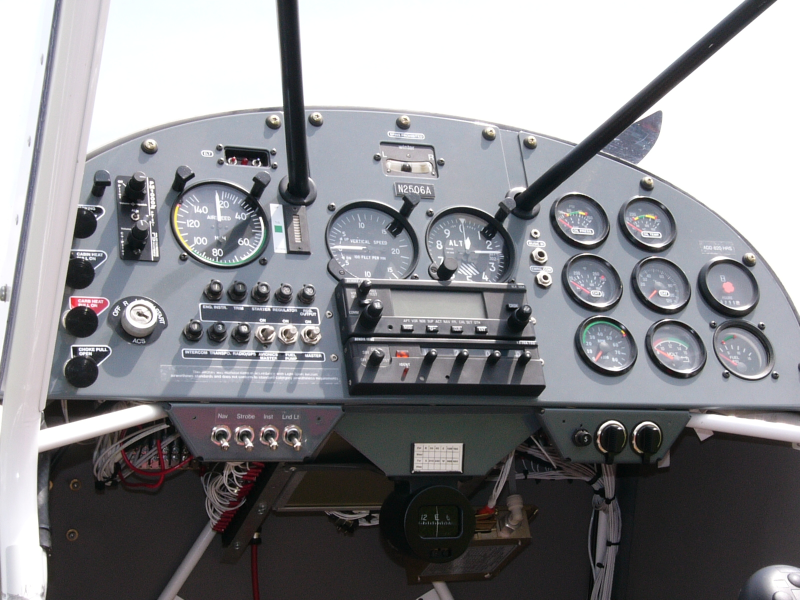 Rans S-7C instrument panal seen at Sun 'n Fun